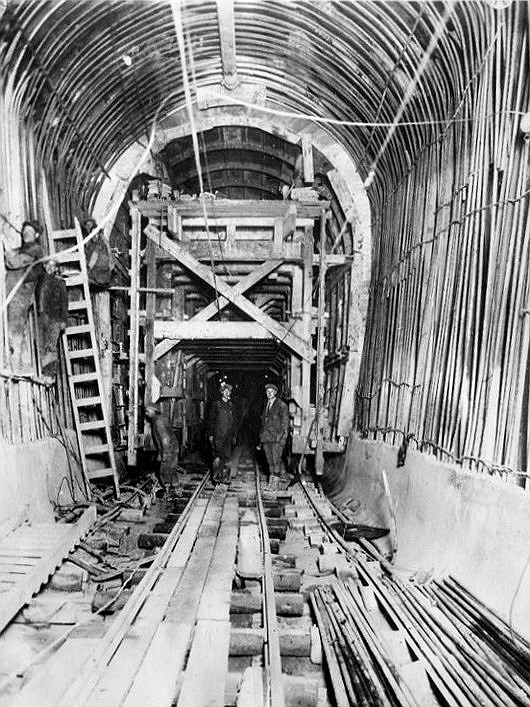 Photo of the interior of the newly completed Moffat Tunnel. A search for original copyright registrations was done in artwork for the year 1927. International Newsreel registered one photo for 1927-a photo of Charles Lindbergh. There's no evidence of original copyright on this photo.